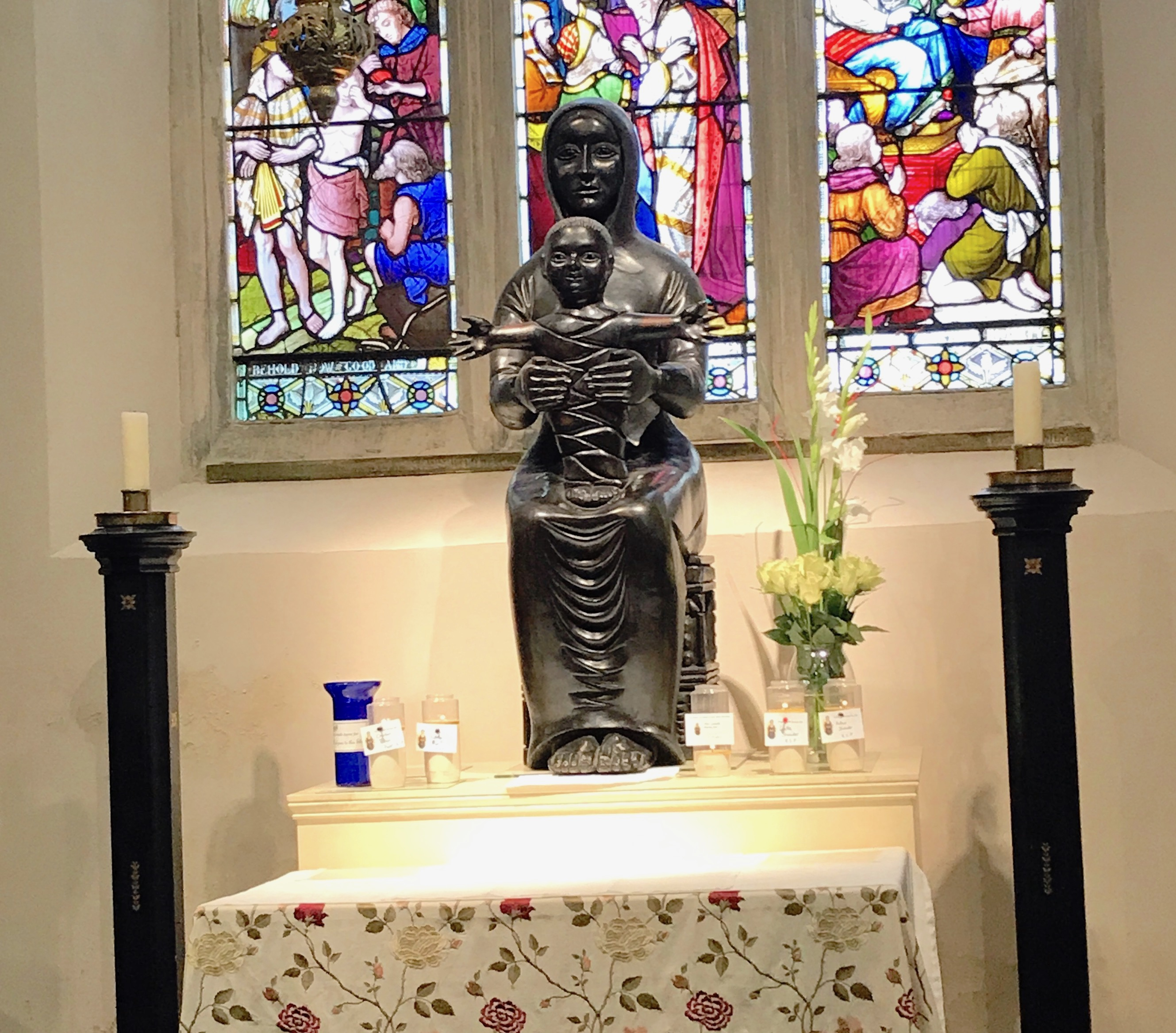 Black Madonna and Child statue of Our Lady of Willesden in the restored shrine in St Mary's parish church, London NW10